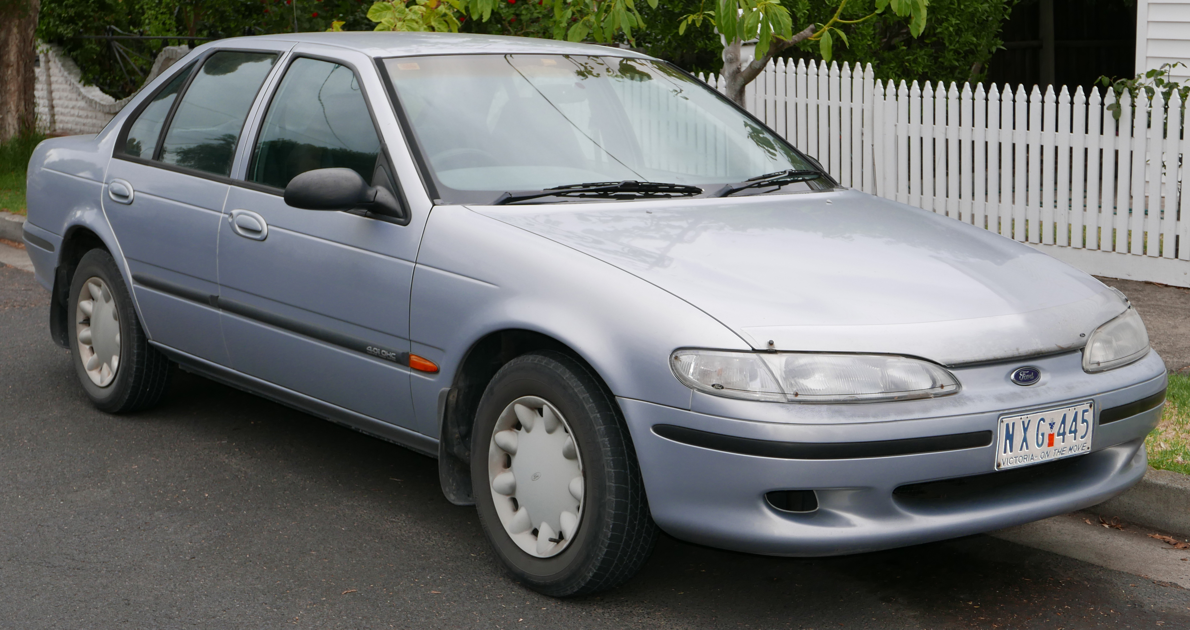 1996 Ford Falcon (EF II) GLi sedan. Photographed in Coburg, Victoria, Australia. Vehicle registration enquiry results Jurisdiction Victoria Registration NXG445 Chassis code 6FPAAAJGSWTD60400 Engine code JGSWTD60400 Compliance date 1996-07 Year of manufacture 1996